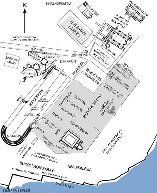 The imperial district of Byzantine Constantinople, with the Great Palace and the approximate locations of its main buildings (based on literary descriptions), the Hippodrome, the Hagia Sophia and the surrounding structures. Surviving or excavated structures are in black, the conjectural outlines of structures in grey, and the shaded portion corresponds to the area occupied by the Sultanahmet Camii and other later structures.